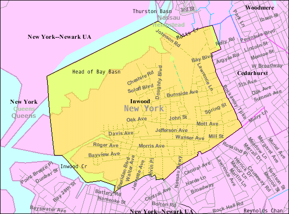 U.S. Census 2000 reference map for Inwood